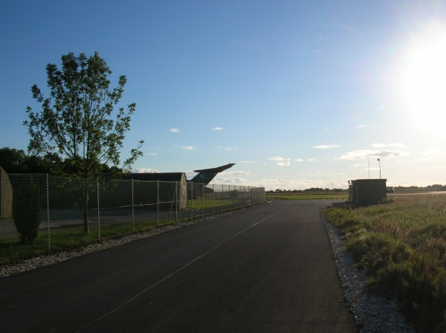 Elvington airfield The top end of Elvington airfield. On the left is the air museum here. Elvington used to be a bomber station boasting one of the largest runways in the country. The runway is now used for racing etc.